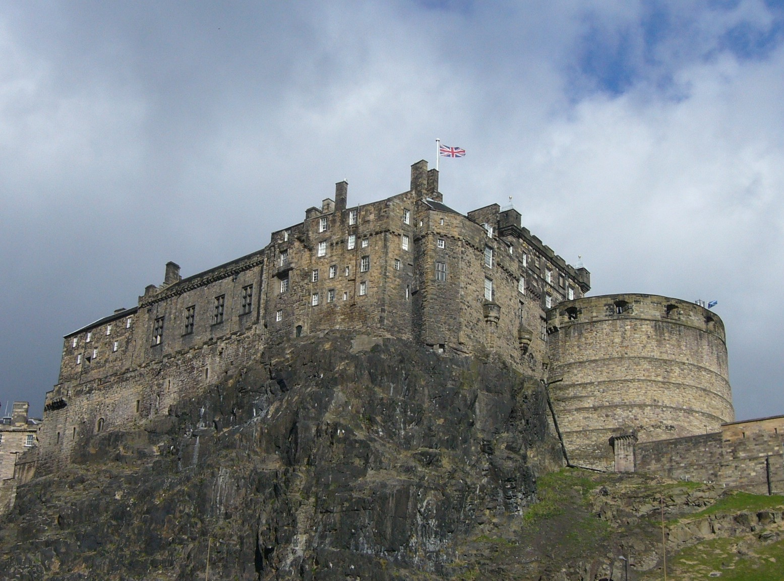 Edinburgh Castle from Portsburgh, the area of the city now called the West Port. Before the draining of the loch on its northern side, this would have been the most familiar view of the Castle for the citizens of Edinburgh. The parts seen here are (right to left) the Half Moon Battery, the Palace Block, the Great Hall and the Queen Anne Building.